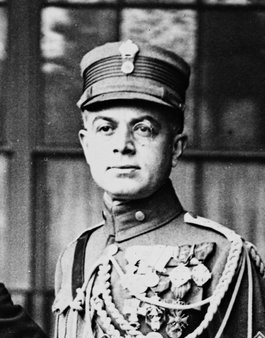 Portrait shot of Col. Ptolemaios Sarigiannis